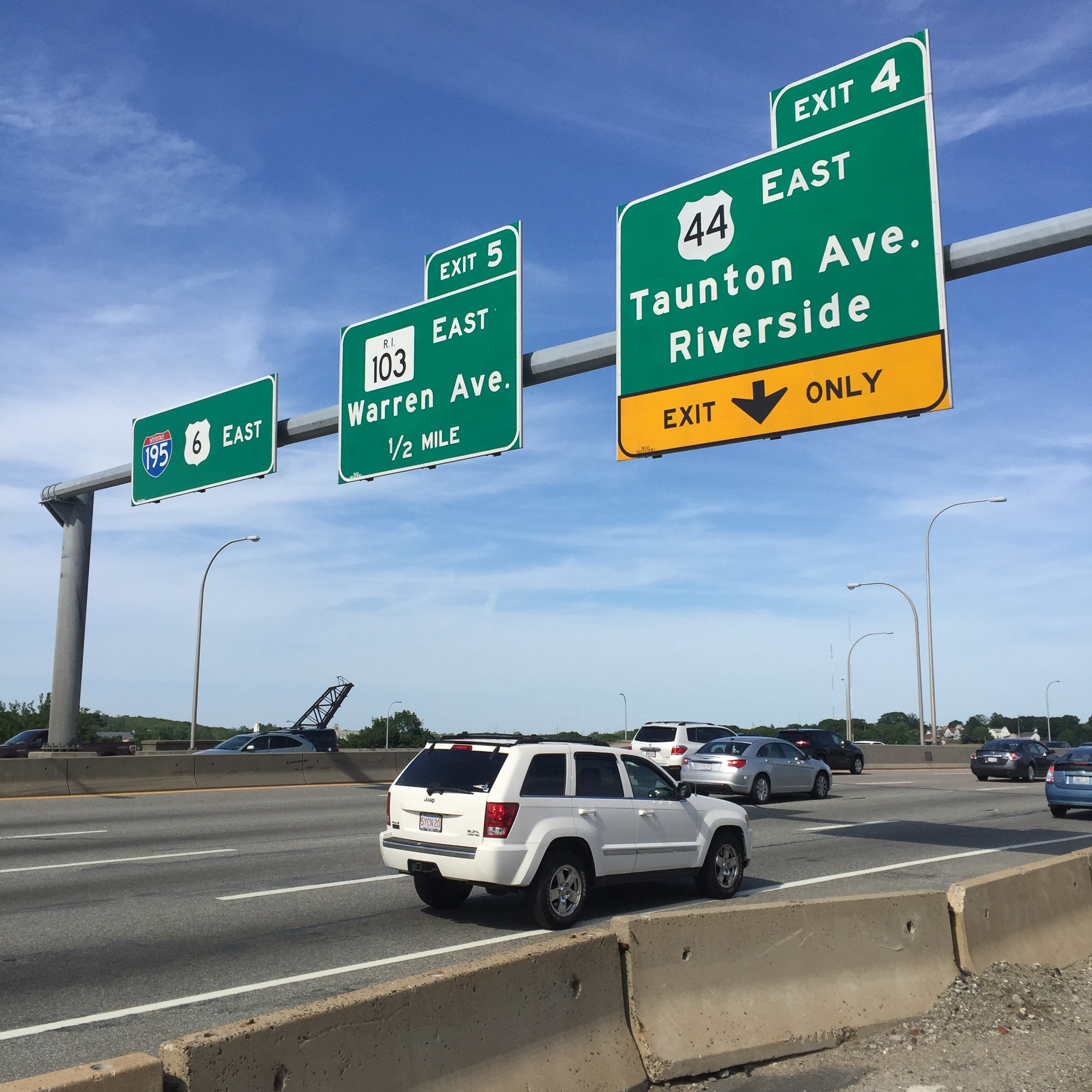 Interstate 195 signs for Exits 4 and 5 on the Washington Bridge, Providence, Rhode Island.